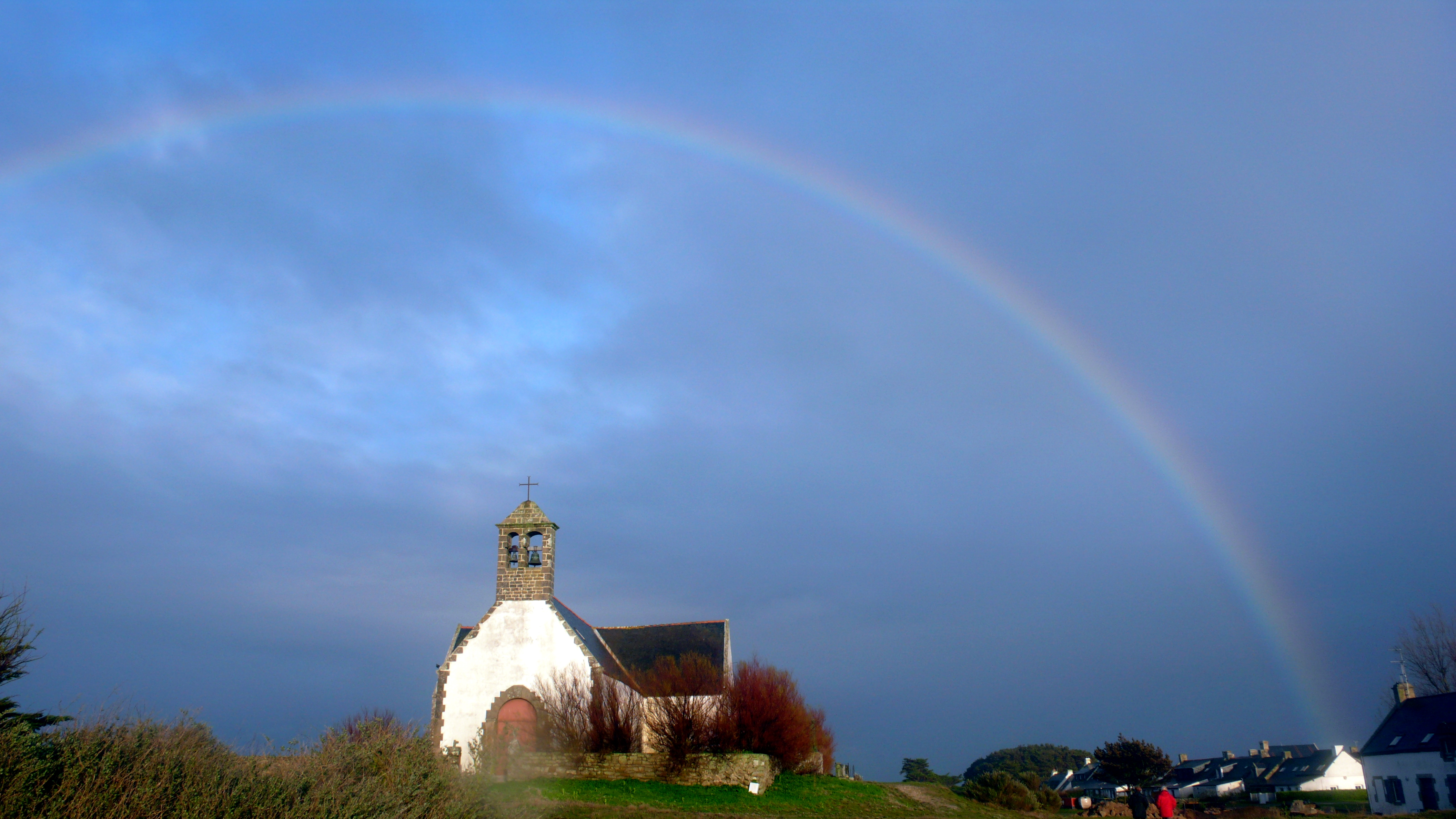 Rainbow in Hoëdic island, Morbihan - France